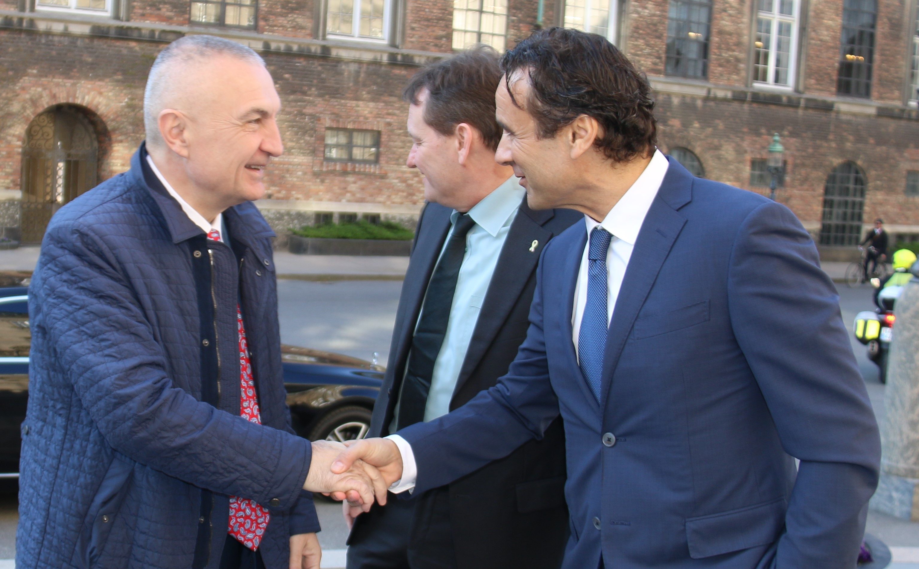 File from the OSCE Parliamentary Assembly Flickr stream